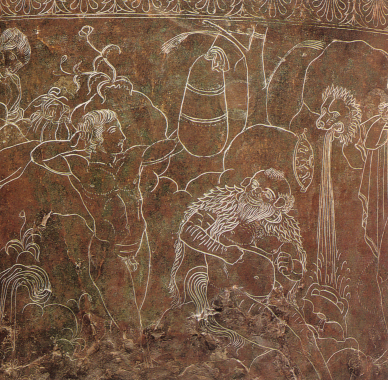 Cista Ficoroni.